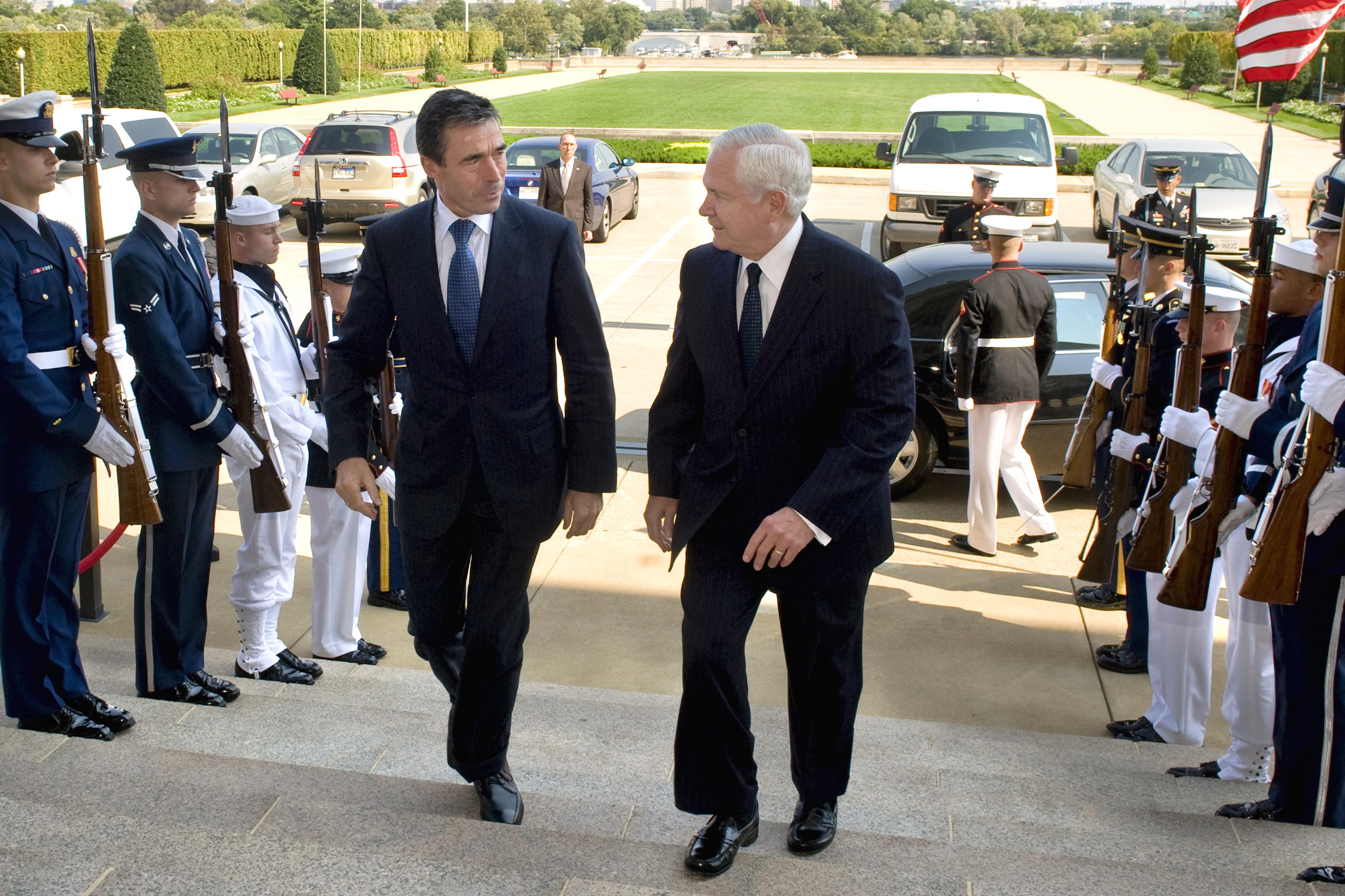 NATO Secretary General Anders Fogh Rasmussen, left, meets with Defense Secretary Robert M. Gates at the Pentagon, Sept. 28, 2009, a day before meeting with President Barack Obama at the White House.